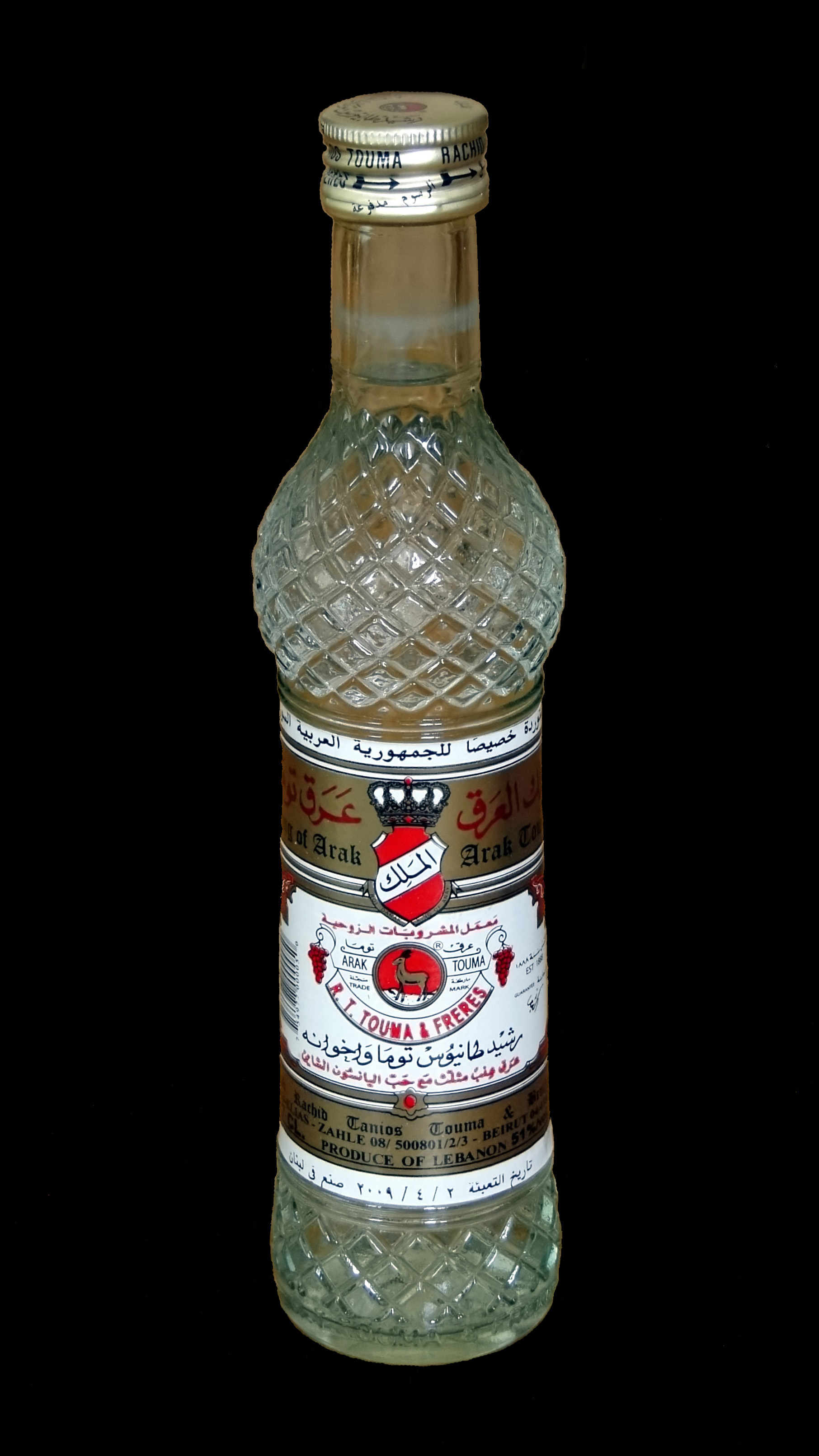 Bottle of Arak Touma from Lebanon